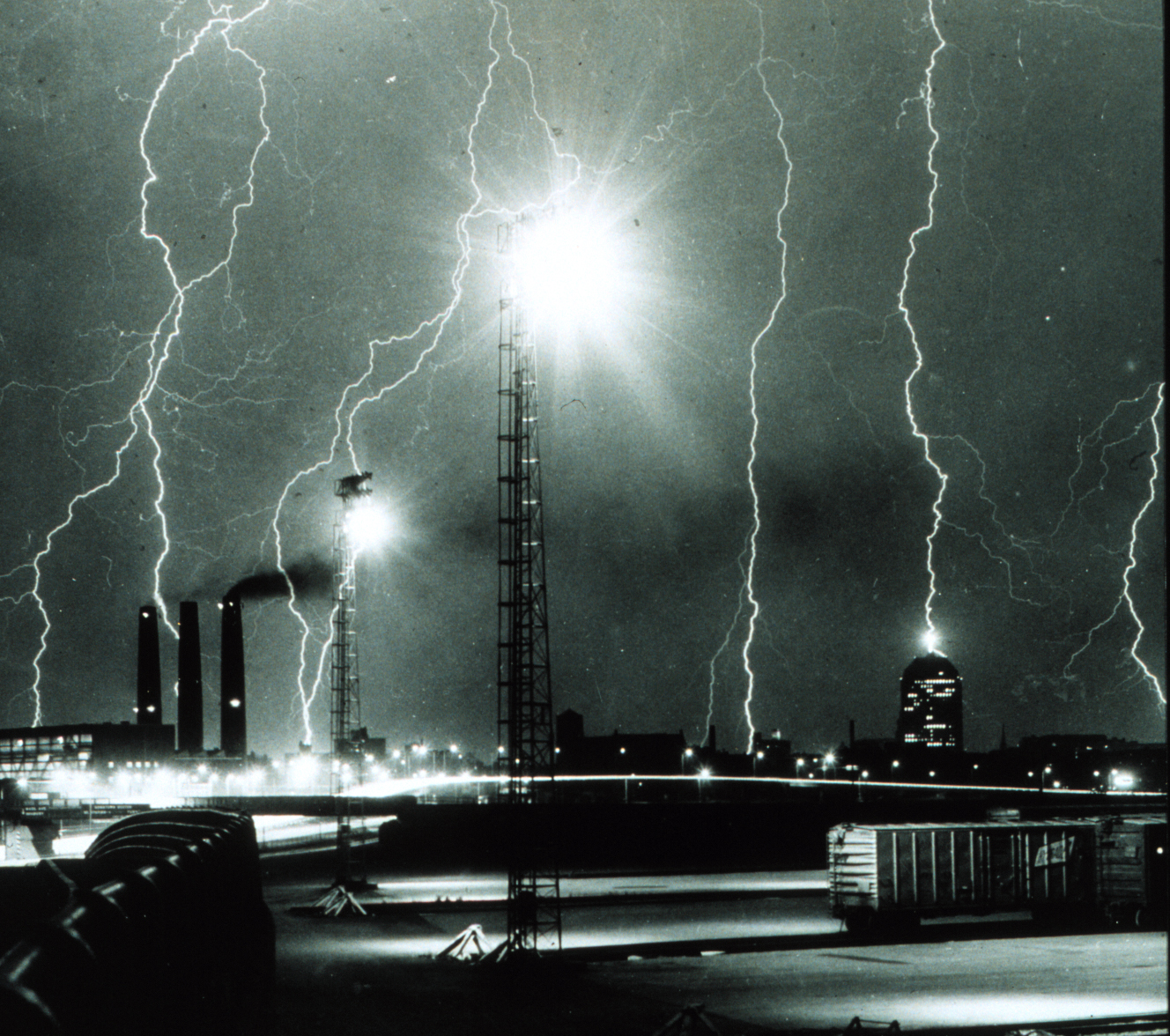 A lightning storm over Boston, with the South Bay Incinerator in the left foreground. This is shot from Amtrak's Front Yard. Image identification:wea00606, Historic NWS Collection